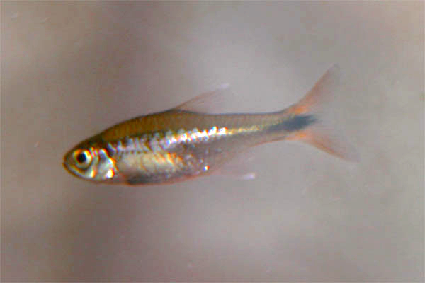 photo by me user debivort July 07